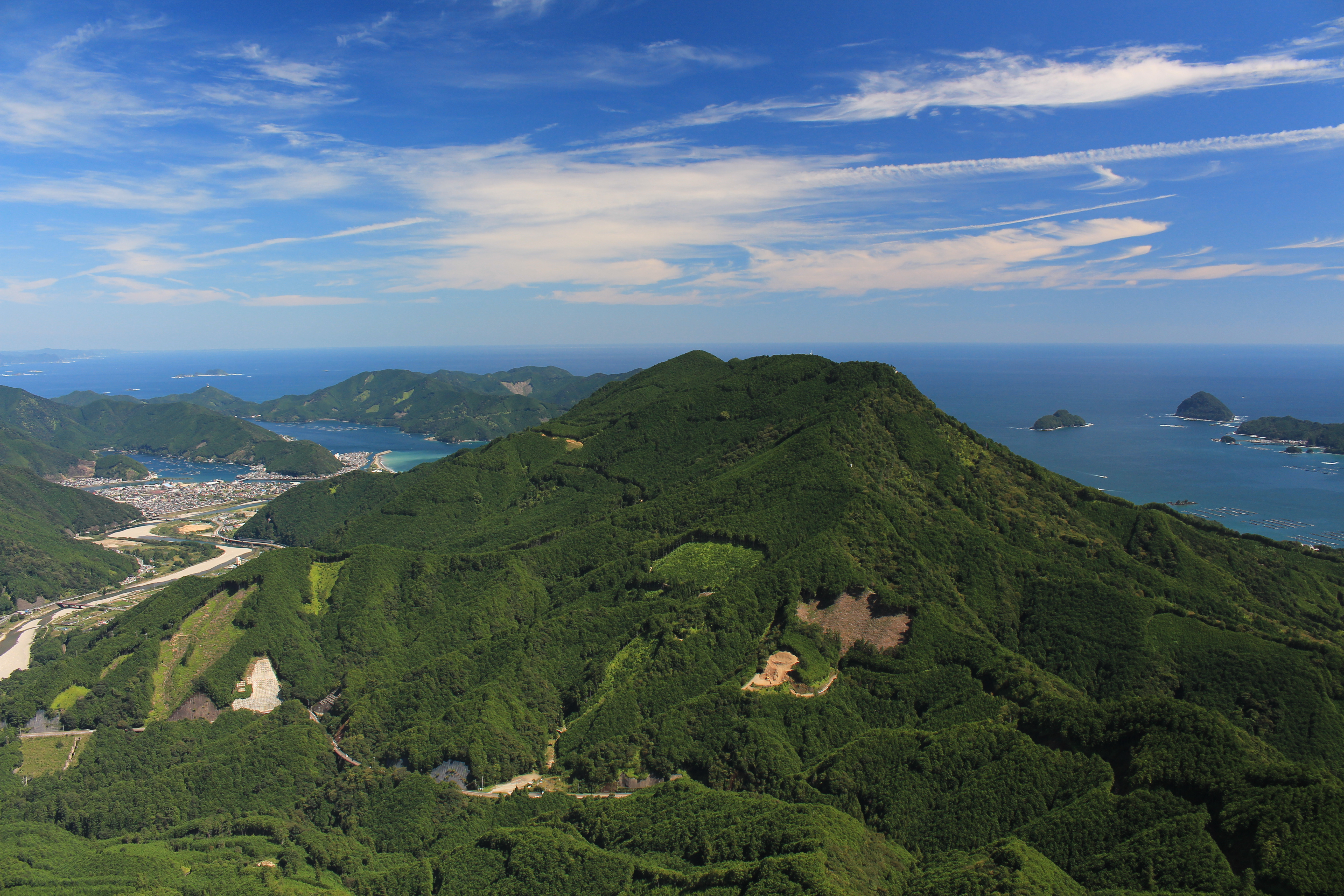 Mount Tengura seen from Zō-no-se on Mount Binshi in Mie prefecture, Japan.